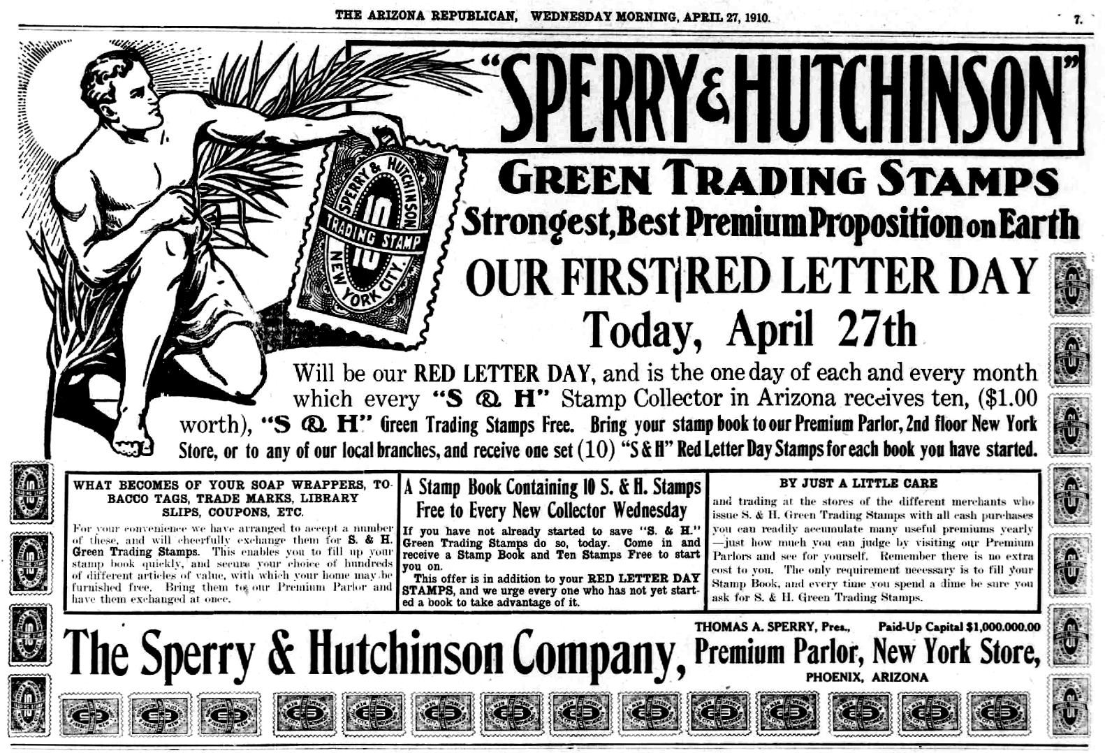 S&H newspaper ad from an Arizona newspaper in 1910. Phoenix, AZ store.